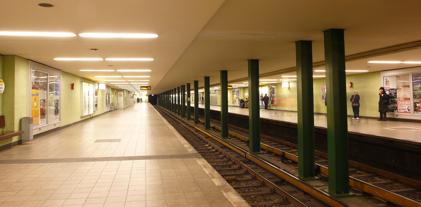 Kurfuerstendamm U1 subway